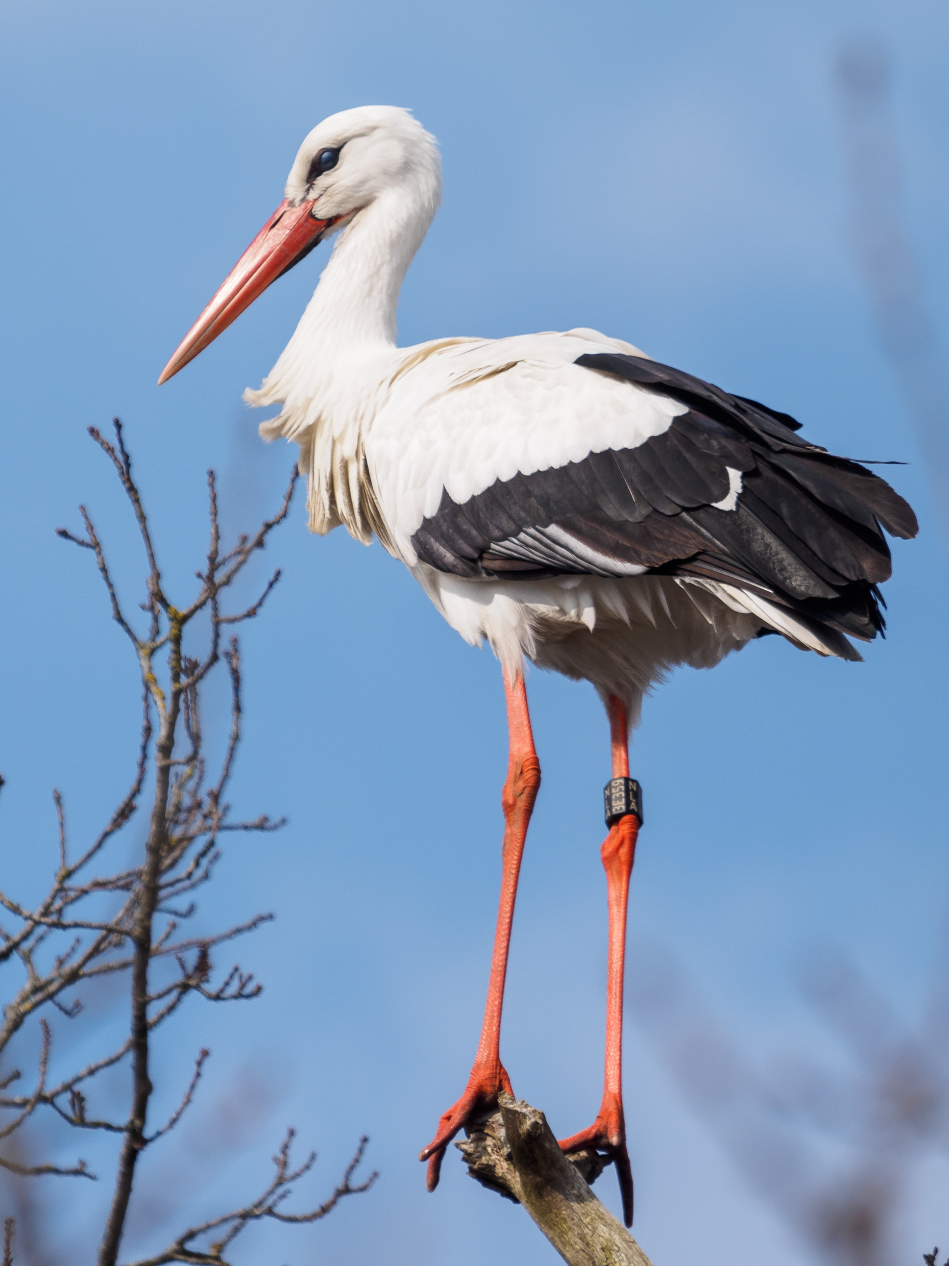 Ringed white stork resting in tree top, Drents-Friese Wold national park